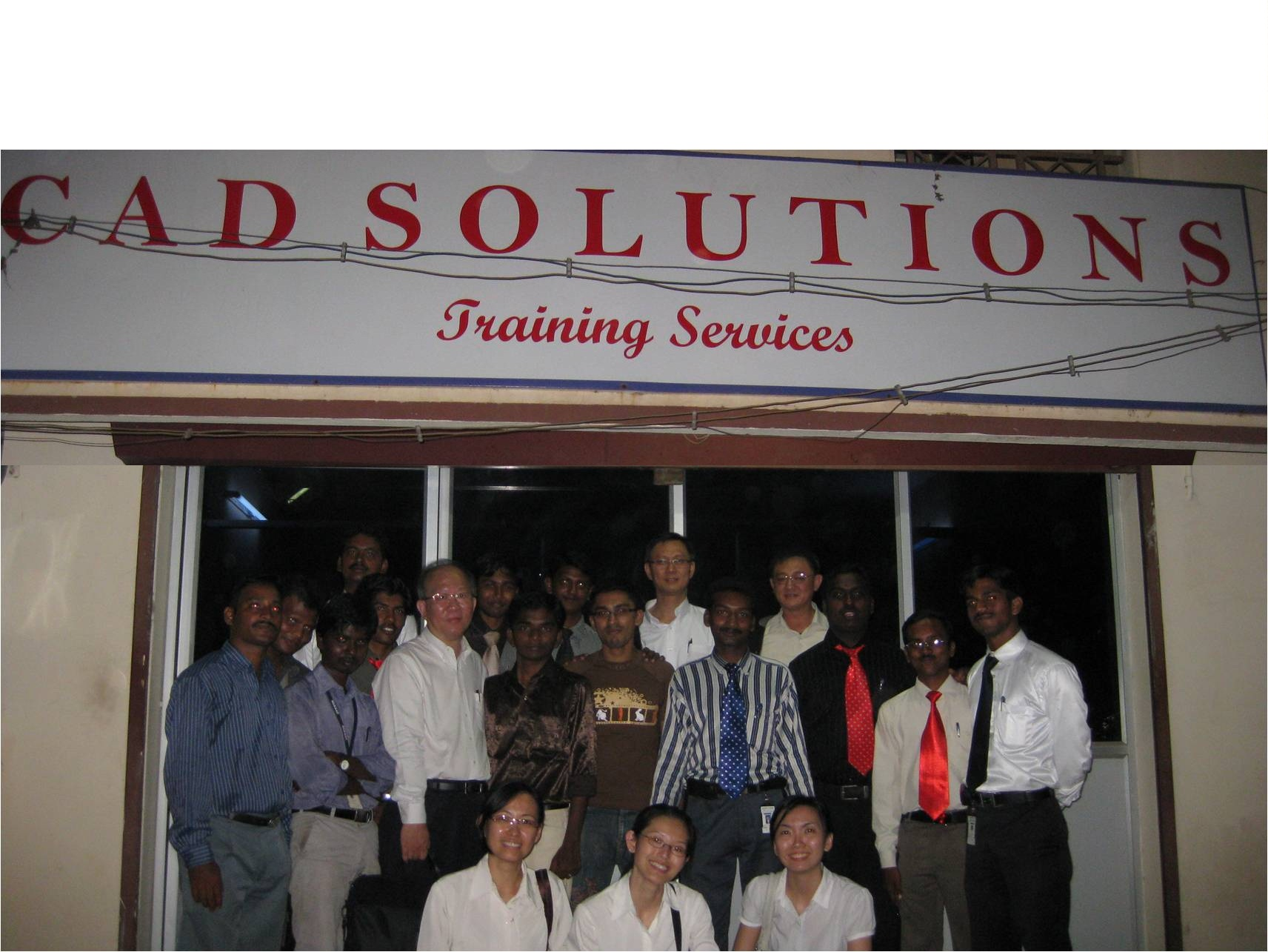 CAD SOLUTIONS, Training Services Institution Located in Kovaipudur pirivu